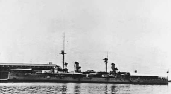 The Italian coast defence ship San Giorgio, which was destroyed by Royal Navy aircraft and RAAF bombers at Tobruk, Libya, June - December 1940.